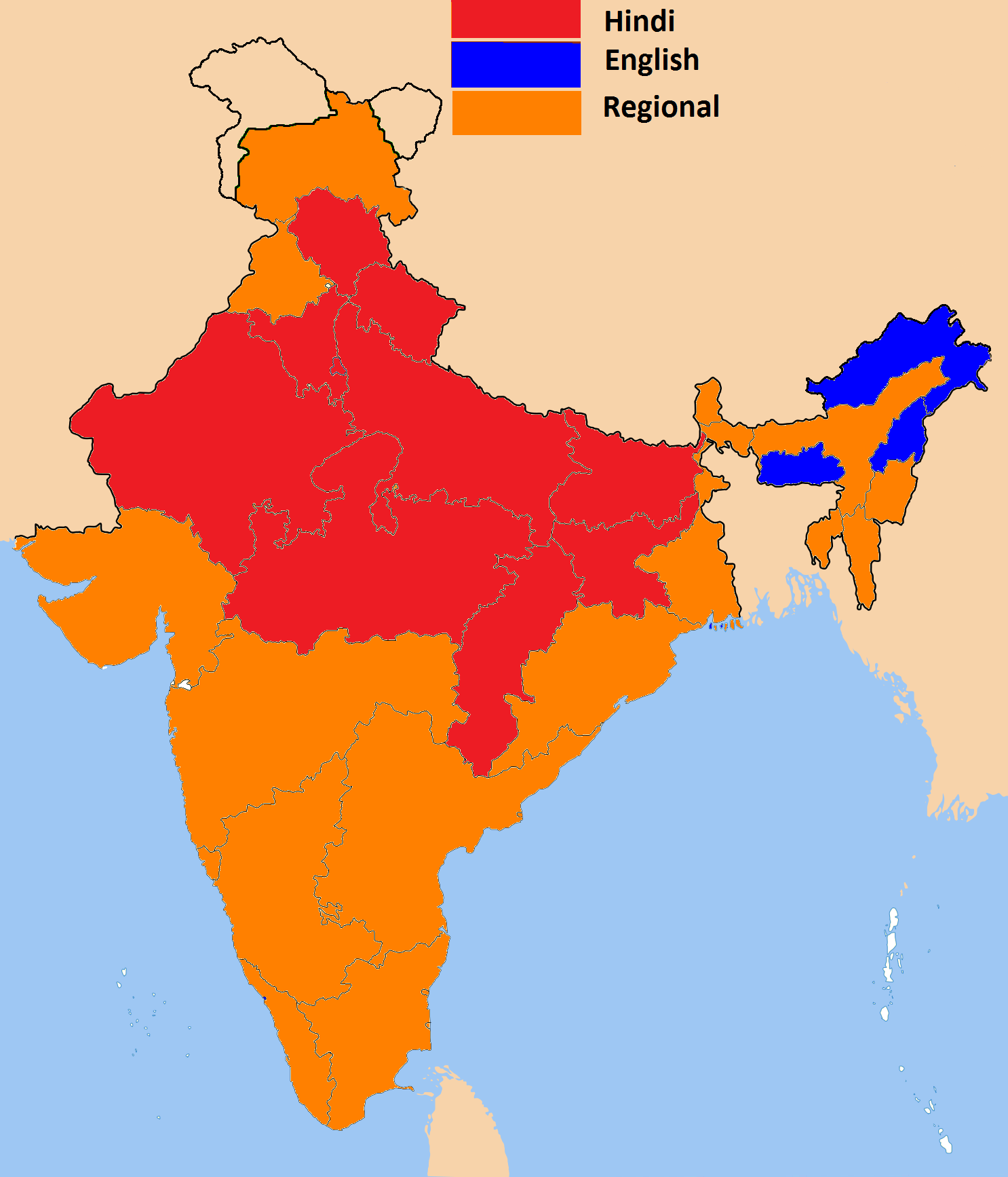 Indian states by official language